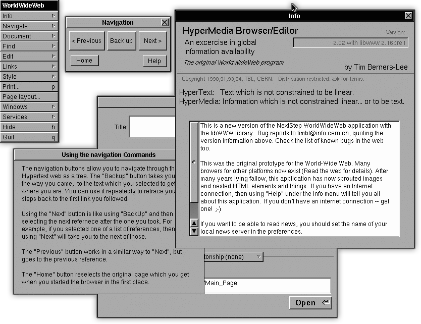 Screenshot of the WorldWideWeb browser running on NeXTStep.